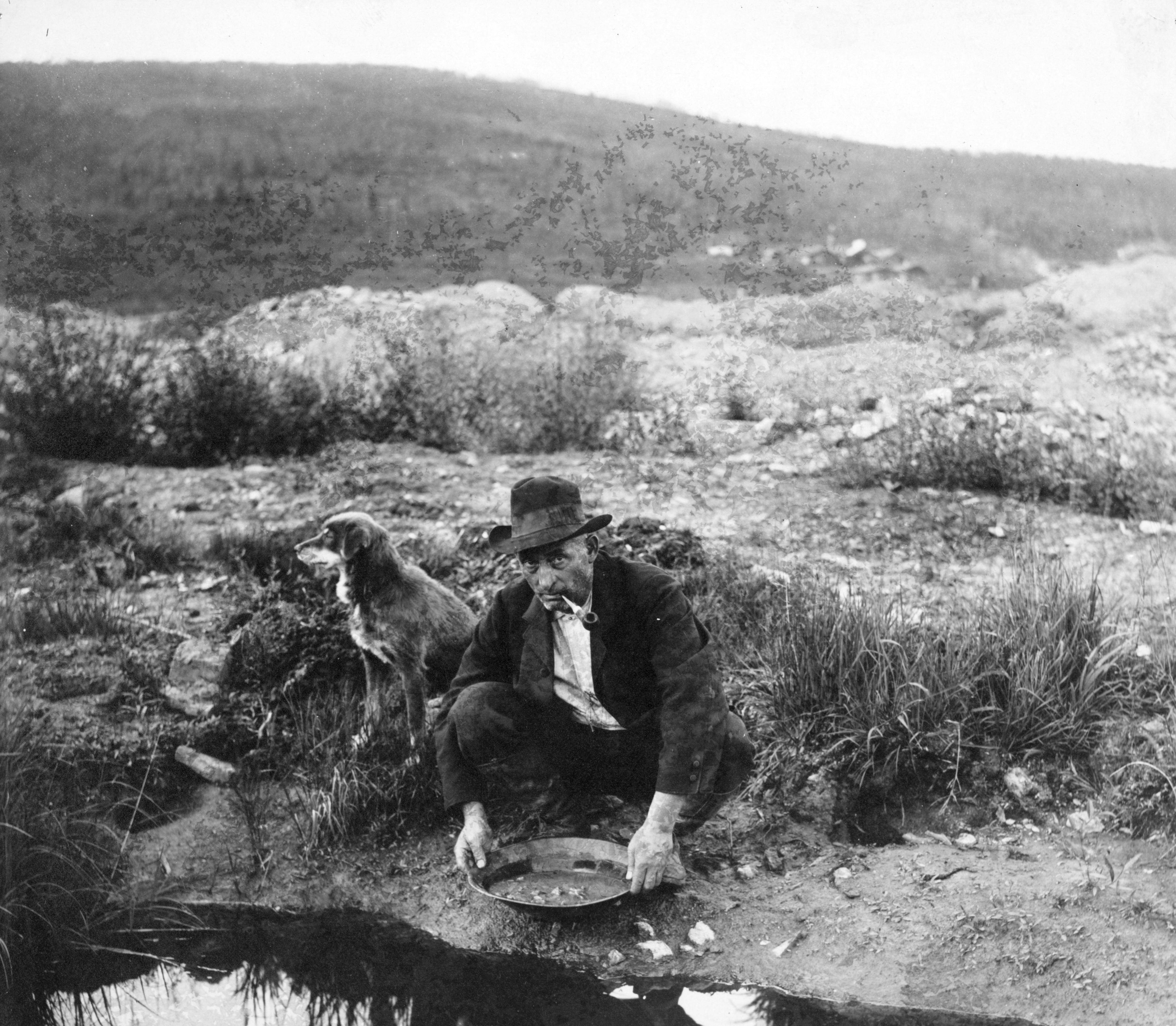 Alaskan miner panning for gold, 1916.